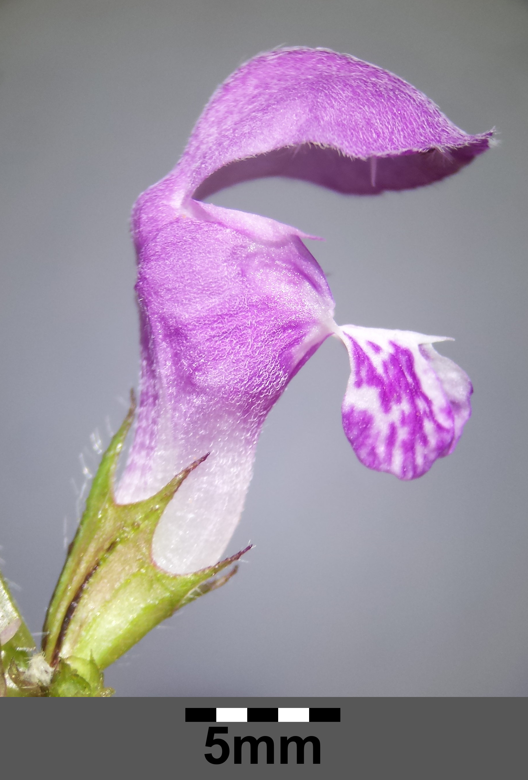 Flower Taxonym: Lamium maculatum ss Fischer et al. EfÖLS 2008 ISBN 978-3-85474-187-9 Location: Rohrwald, district Korneuburg, Lower Austria - ca. 300 m a.s.l. Habitat: wayside